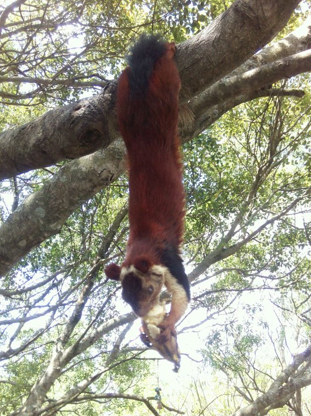 Giant squirrel eating banana. Took this pic at Thirupathi hills